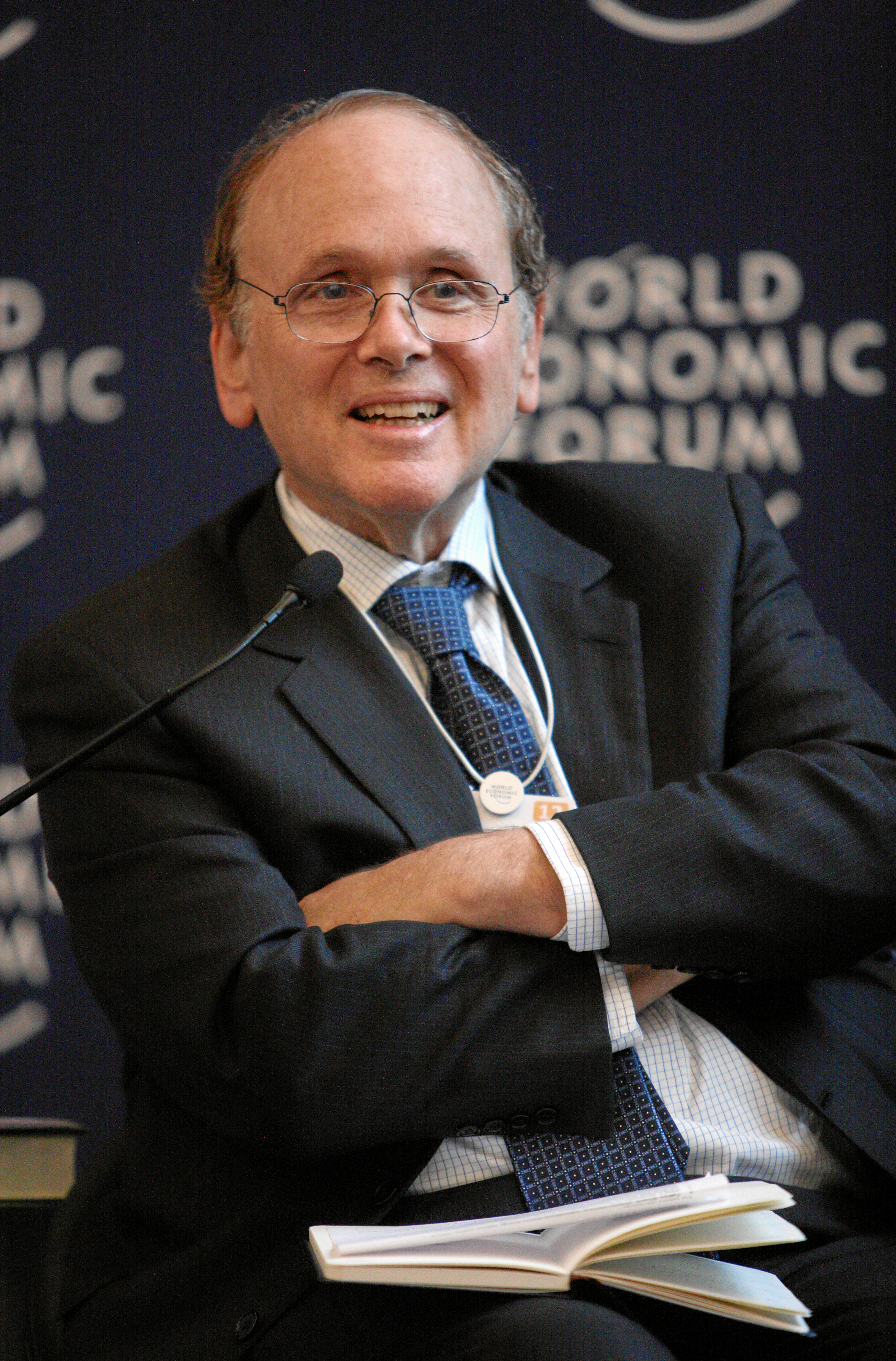 DAVOS/SWITZERLAND, 28JAN12 - Daniel Yergin, Chairman, IHS CERA, USA and Oil & Gas Community Leader 2012; Global Agenda Council on Energy Security is captured during the session 'Global Energy Outlook' at the Annual Meeting 2012 of the World Economic Forum at the congress centre in Davos, Switzerland, January 28, 2012.. . Copyright by World Economic Forum. by Remy Steinegger